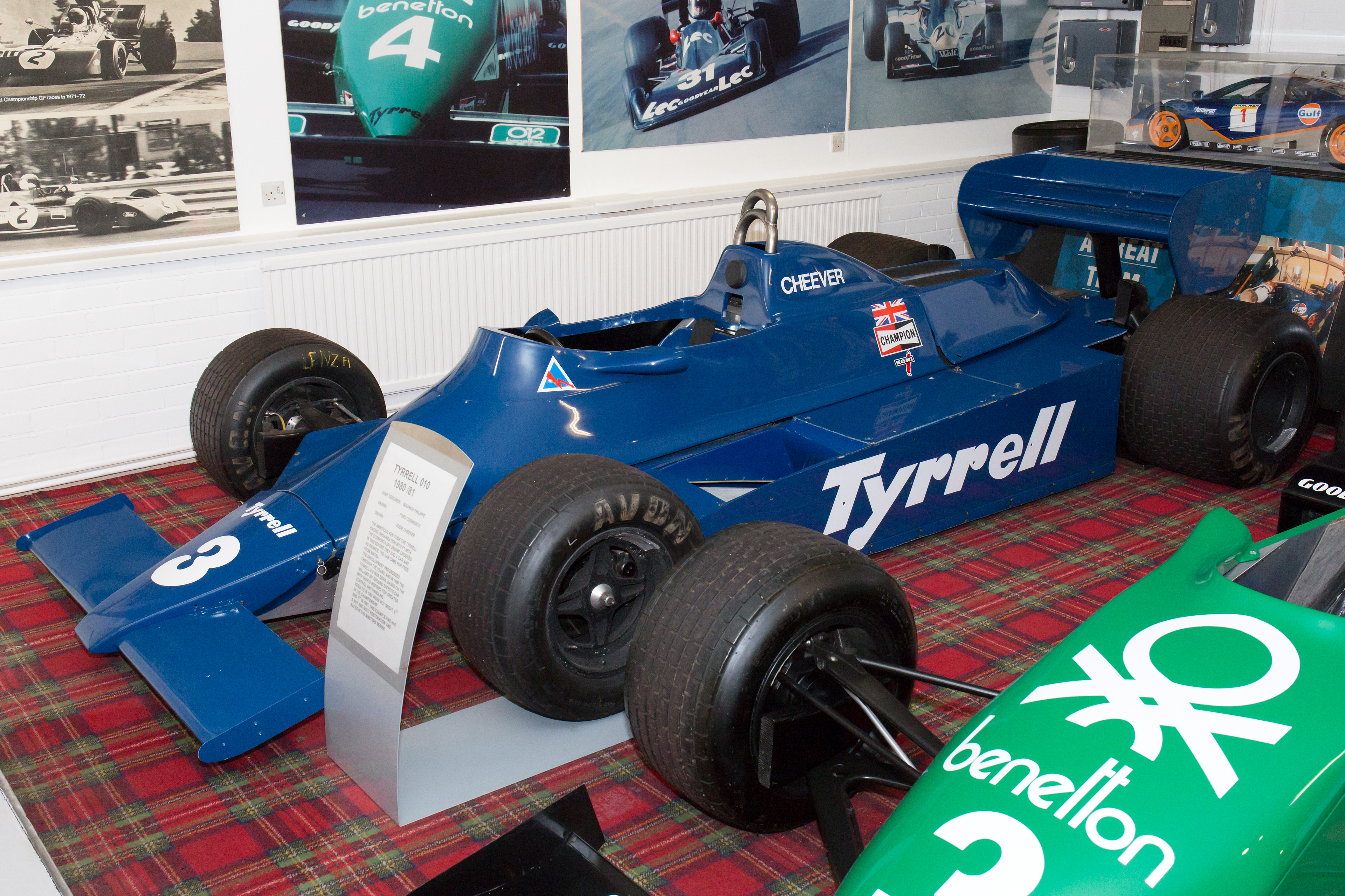 1980-1981 Tyrrell 010